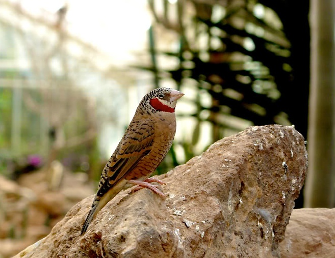 A male Cut-throat Finch at Paignton Zoo, Devon, England.